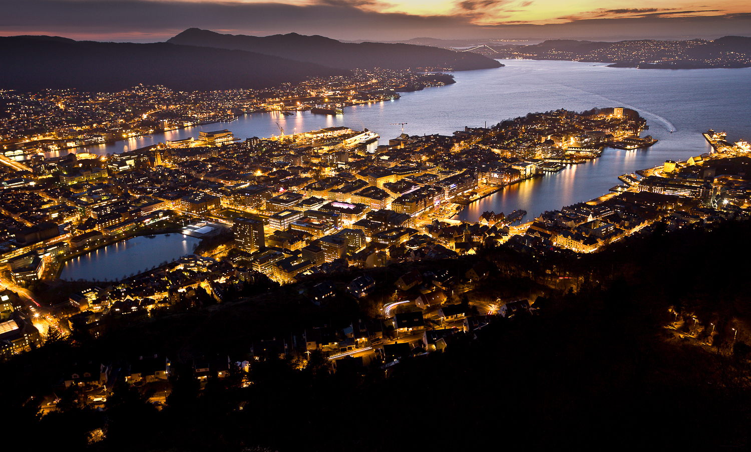 View of Bergen from Mount Fløyen. If you're looking for one of the best views over the city you should include a trip on famous Funicular. It will take you from the city center to the top of the Mount Fløyen. Then you'll be 320 meters above sea level. Check out the magnificent views over the surroundings islands.